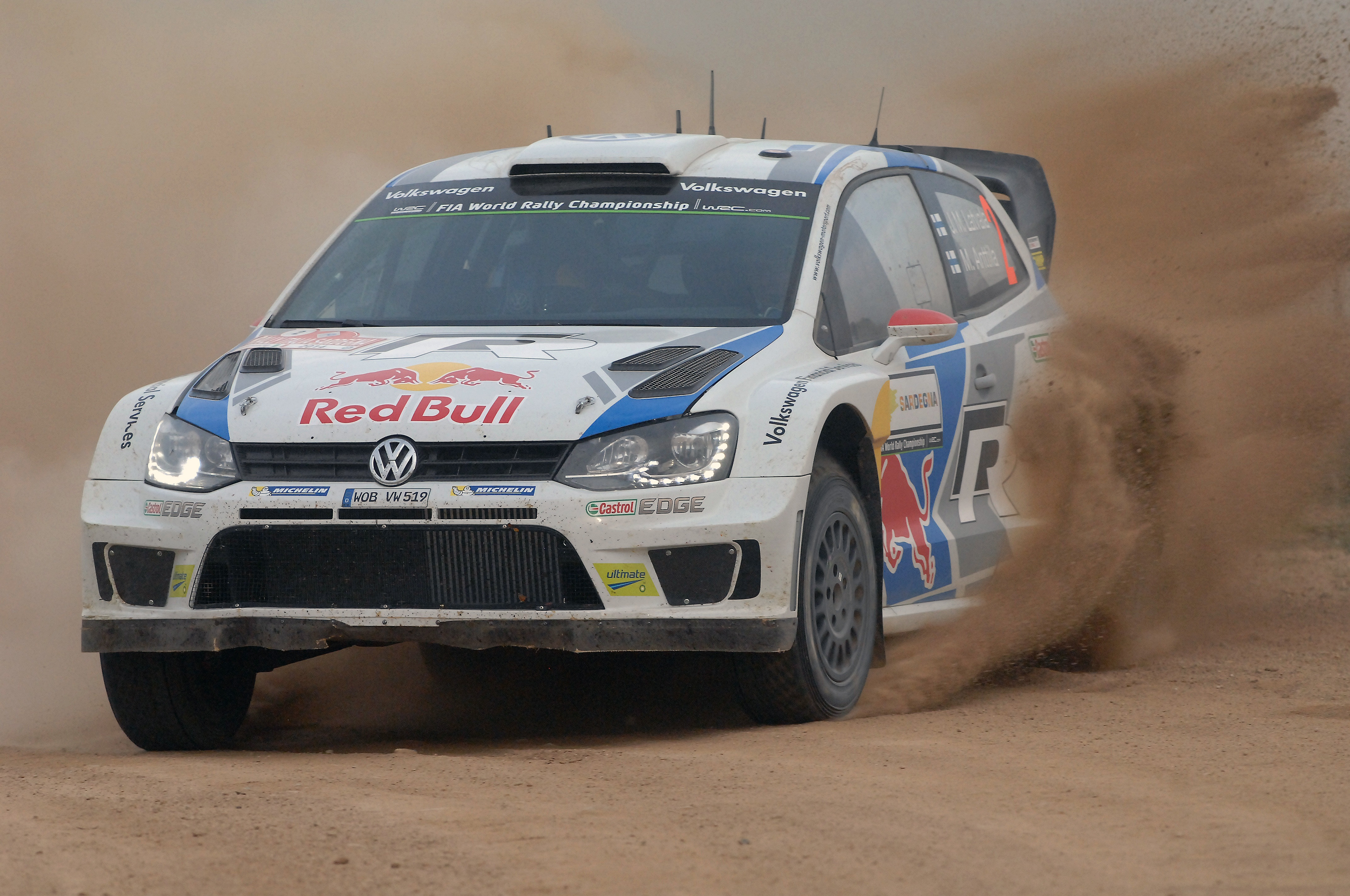 2014 Rally d'Italia Sardegna Jari-Matti Latvala